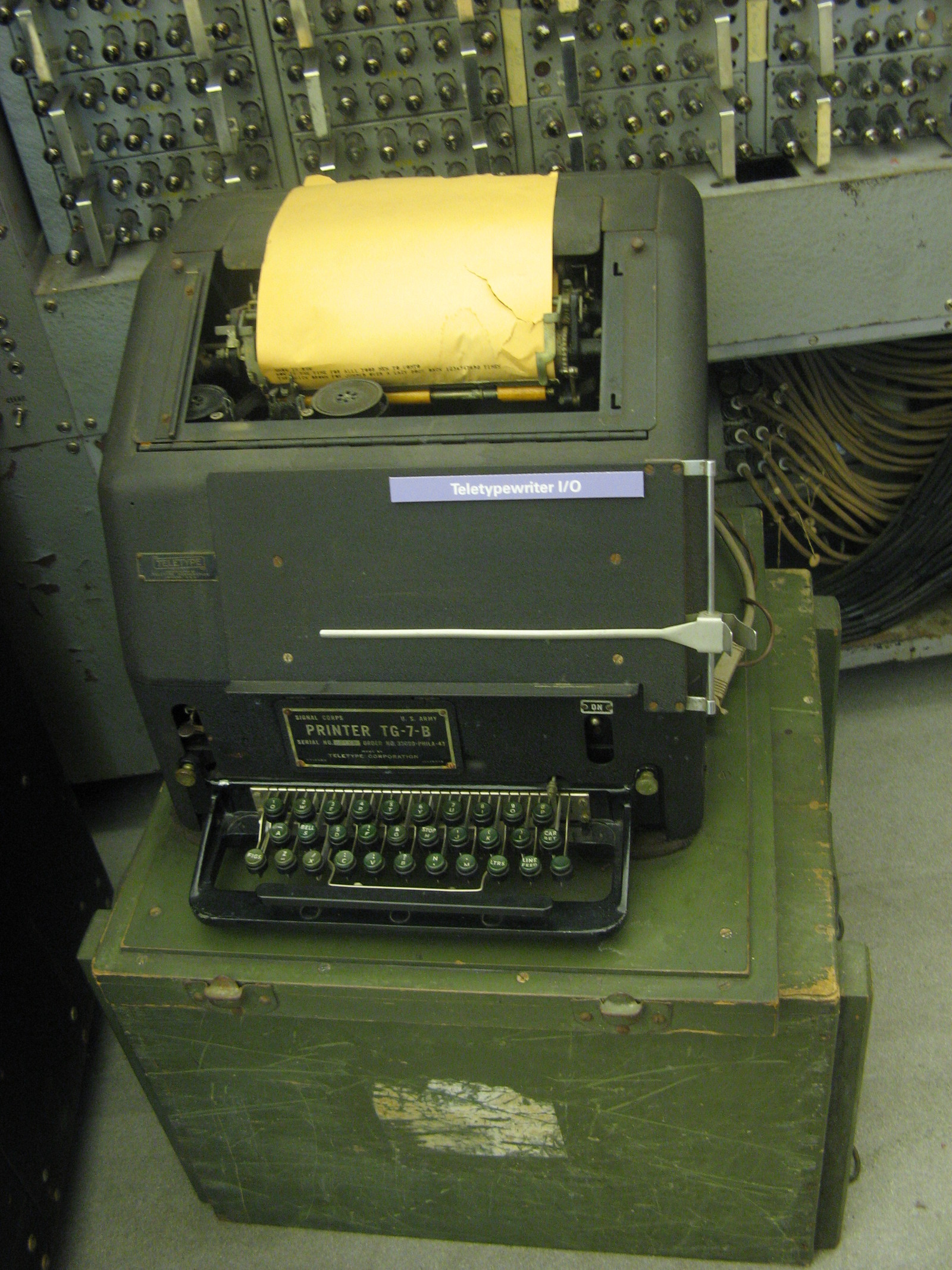 Teletype machine TG-7-B, a military version of the Model 15. From the Museum of Computer History